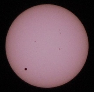 Transit of Venus 2012 On 6 June 2012, about 3800 people in Timor-Leste attended a public observing event: the final opportunity to see a transit of Venus in our lifetime. Together with the observations were an astronomy exhibition and explanation activities. Place: Palácio do Governo, Díli, Timor-Leste. Project: Astronomy in Timor-Leste:Celebrating the Transit of Venus 2012 More